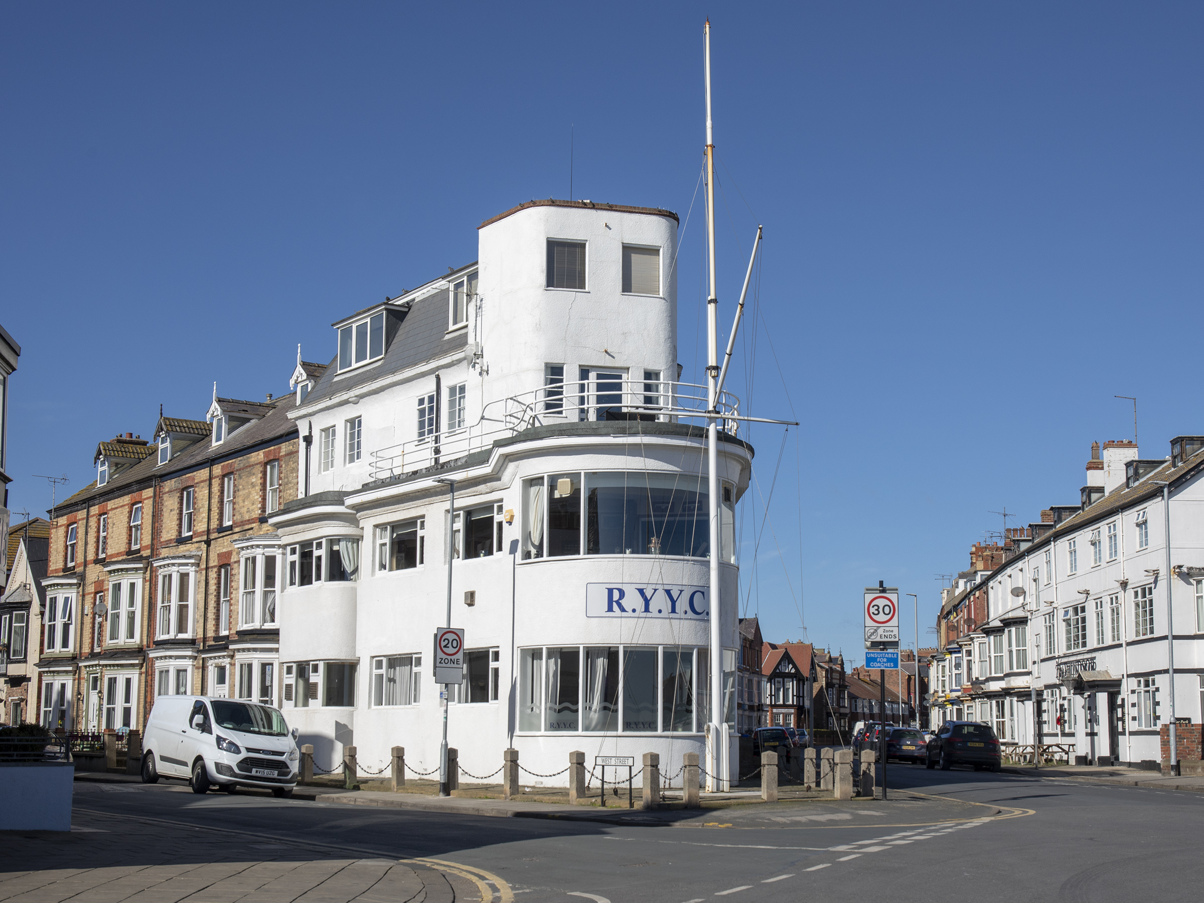 The Royal Yorkshire Yacht Club, Bridlington, which used to be the Ozone Hotel.